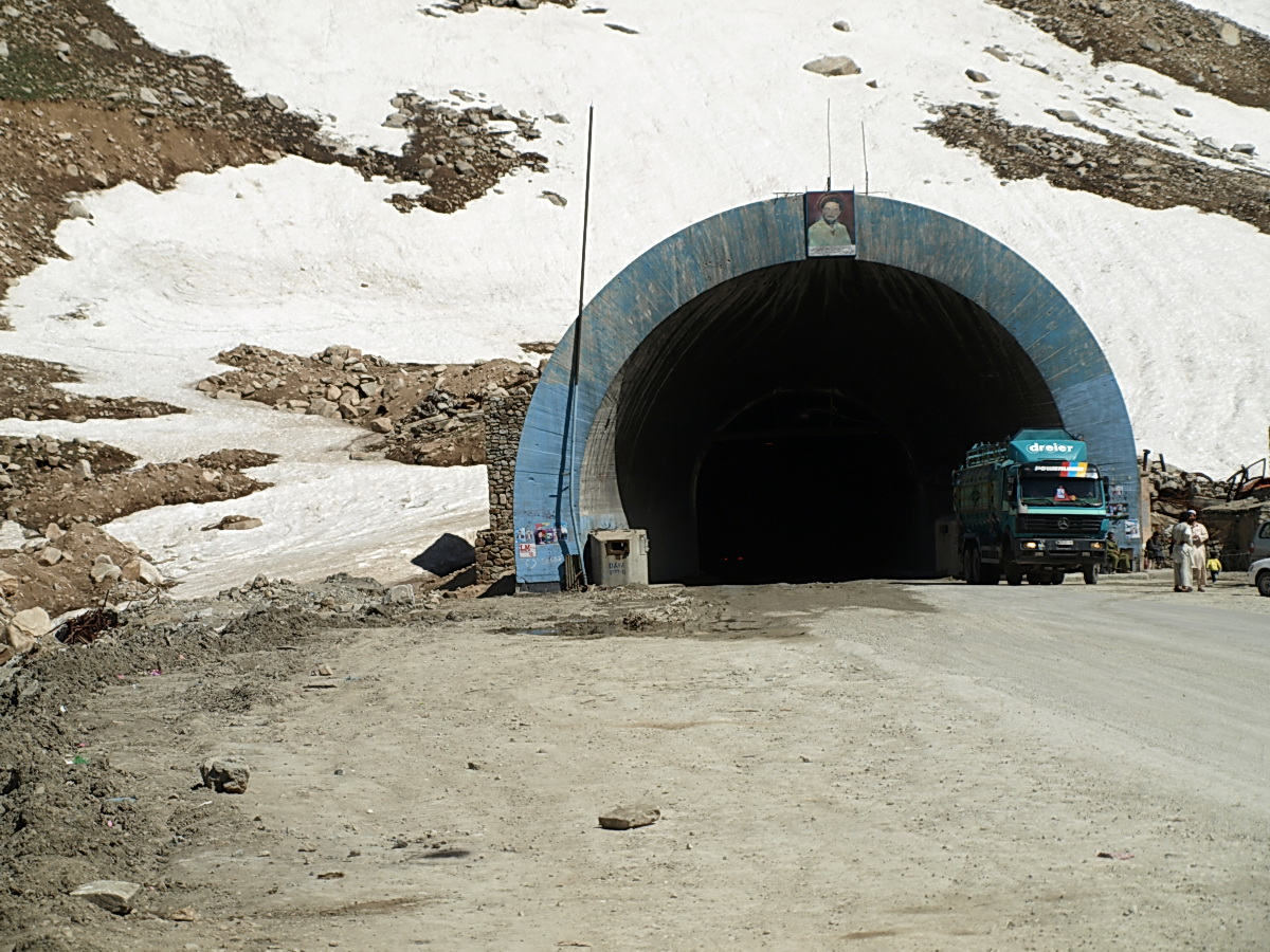 entrance to Salang Pass, Afganistan